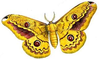 (bottom) S[aturnia] Lavendera = Copaxa lavendera (Westwood, 1853), ♀